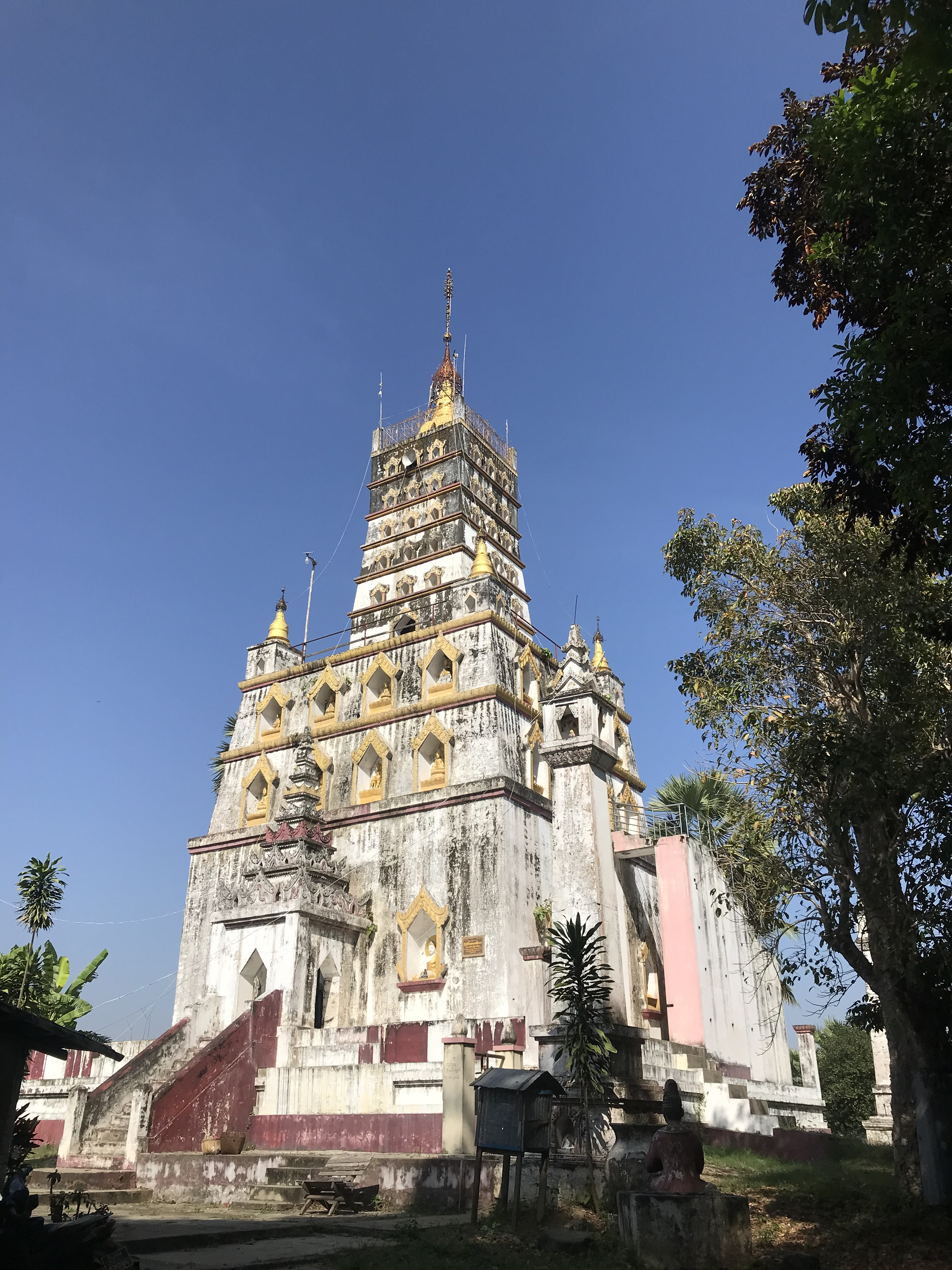 ဖောင်တော်ဦးဘုရား